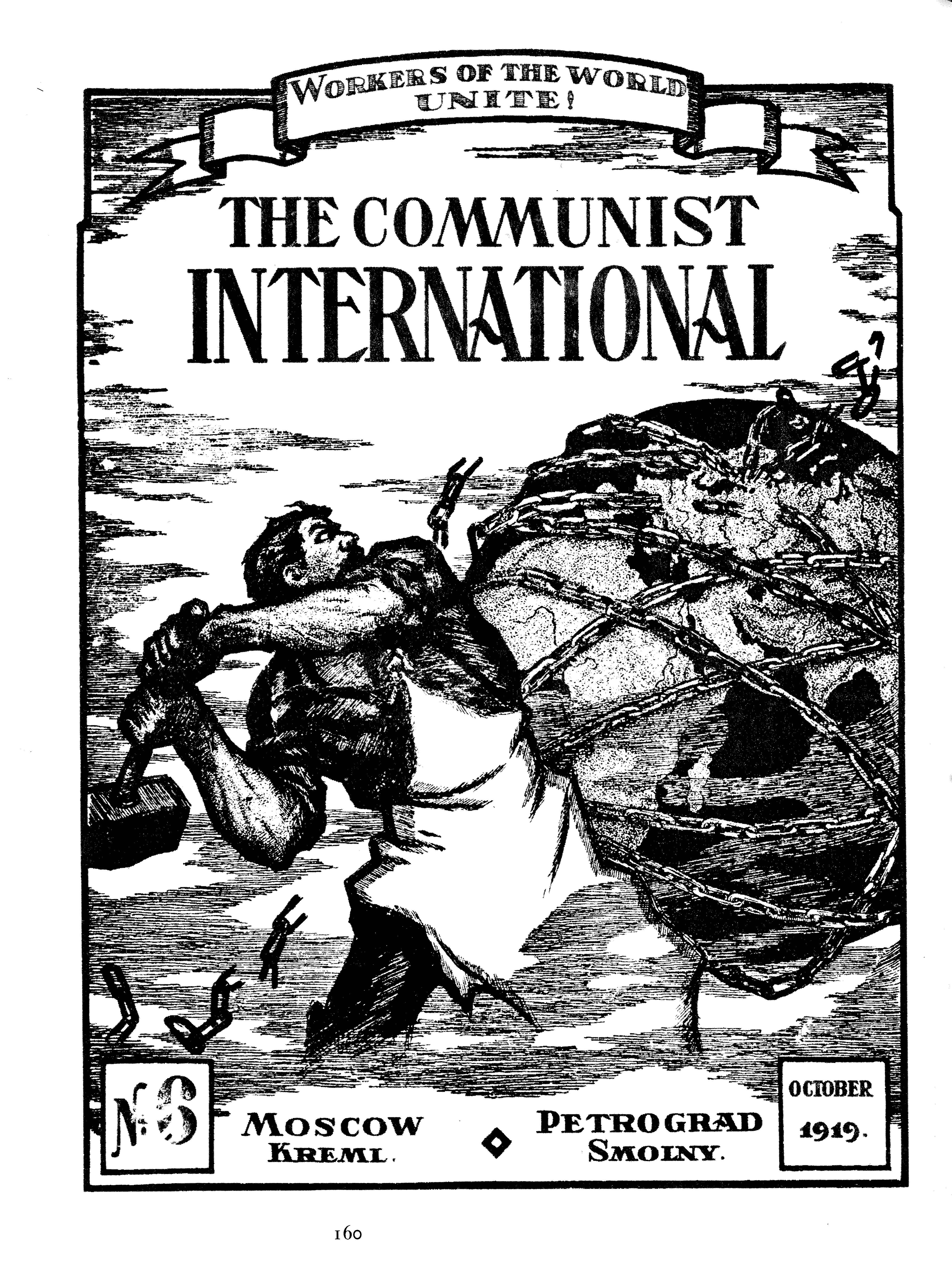 Front cover of issue 6 of the English language version of The Communist International, published October, 1919